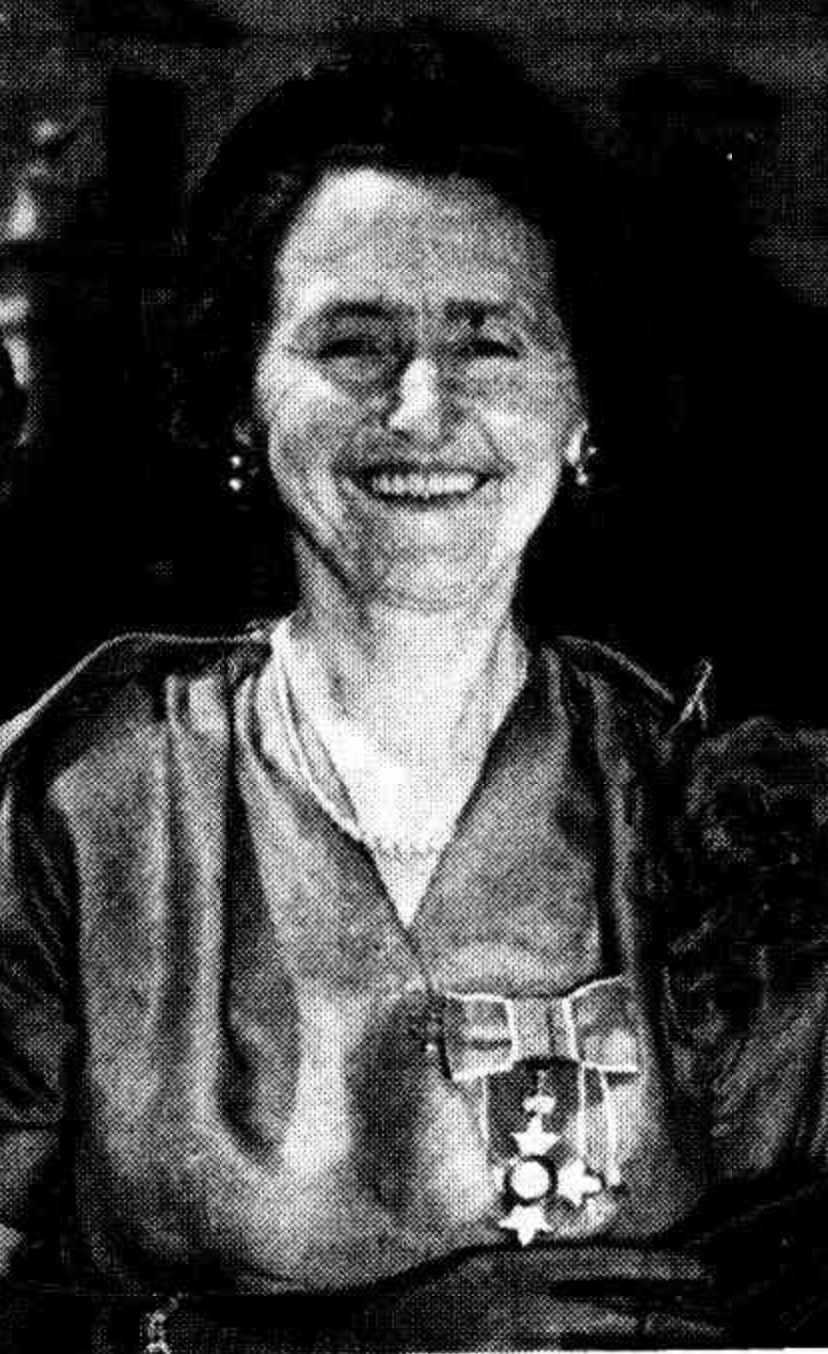 Dame Kate Isabel Campbell, DBE, FRCOG (22 April 1899 — 12 July 1986) was a noted Australian physician and paediatrician.